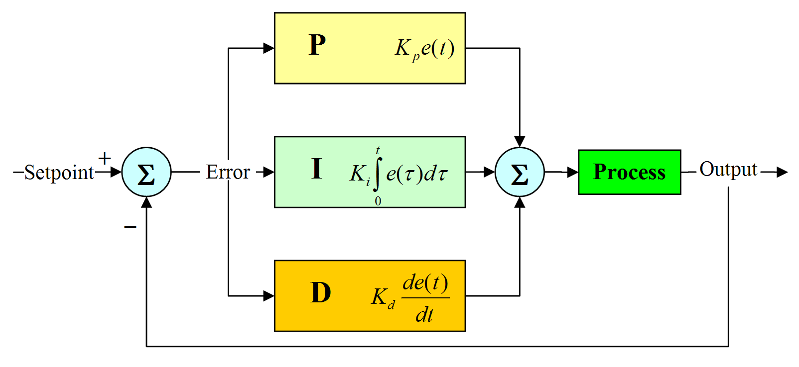 Depicts a traditional PID controller.